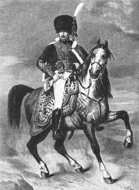 Eugène de Beauharnais, Napoleon’s stepson. As well as being a skillful commander, he served from 1805 as viceroy of the new Kingdom of Italy, in which capacity he carried out liberal constitutional reforms.